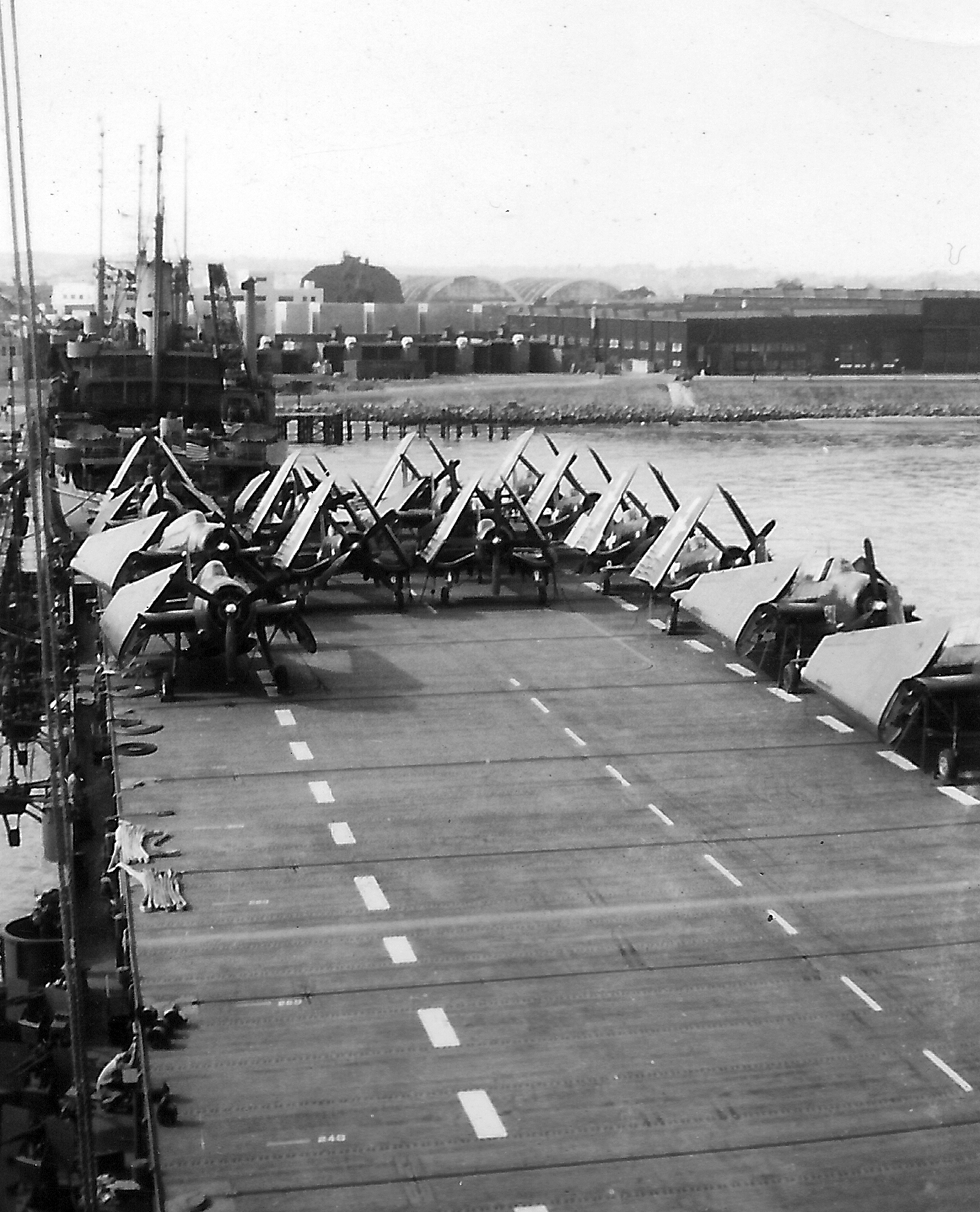 Flight Deck, USS Point Cruz, San Diego Nov 1945